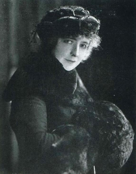 American actress Mary Ryan (1885 - 1948), on page 10 of the December 1921 Broadway Brevities. The caption notes her work in the play Only 38 at the Cort Theatre in New York.